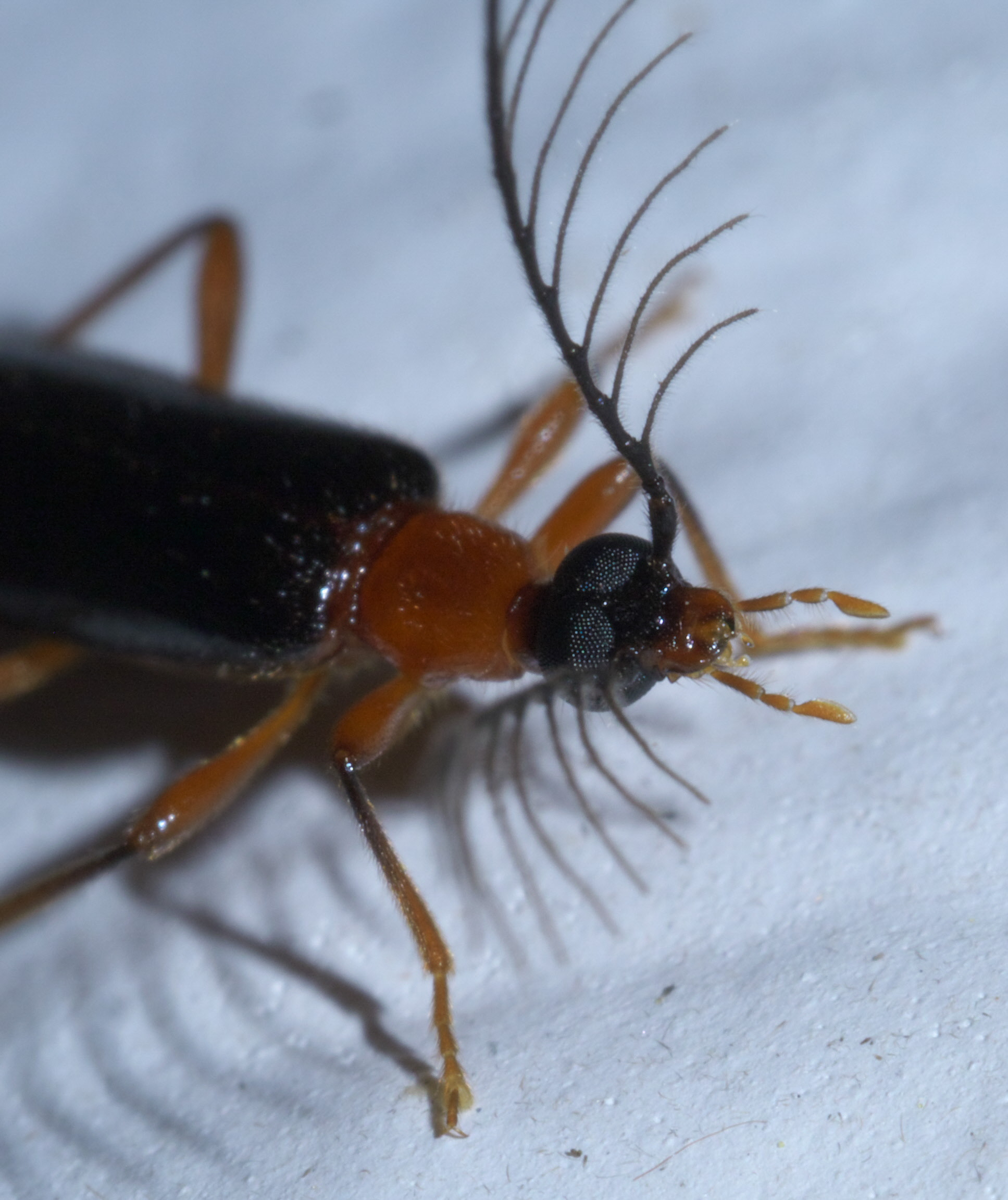 Dendroides canadensis, Family: Fire-Colored Beetles, ID Confidence: 88